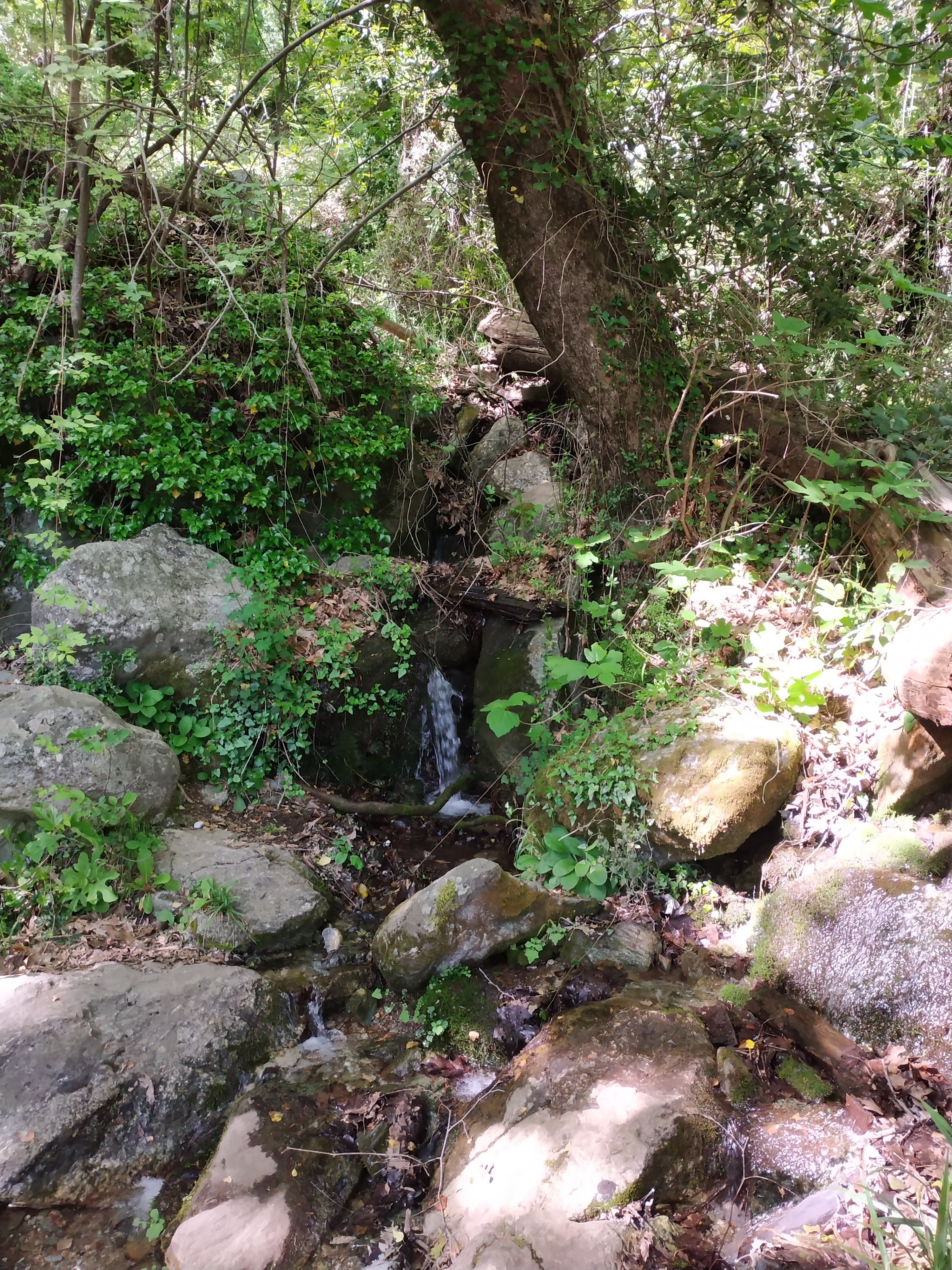 This is a photography of Natura 2000 protected area with ID GR1430001